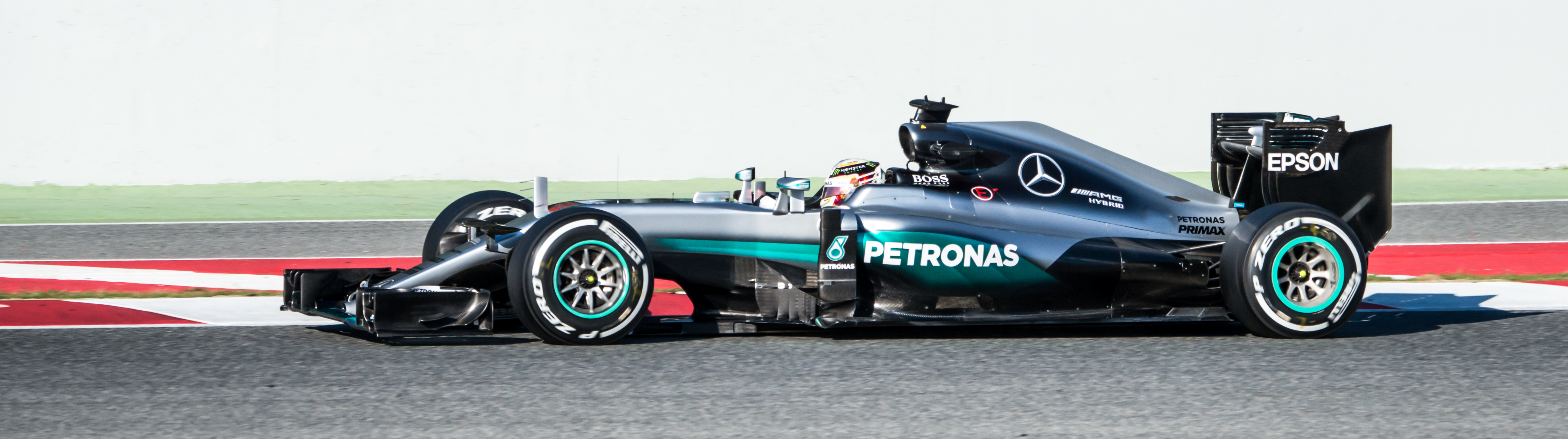 Lewis Hamilton during 2016 Winter testing in a Mercedes F1 W07 Hybrid